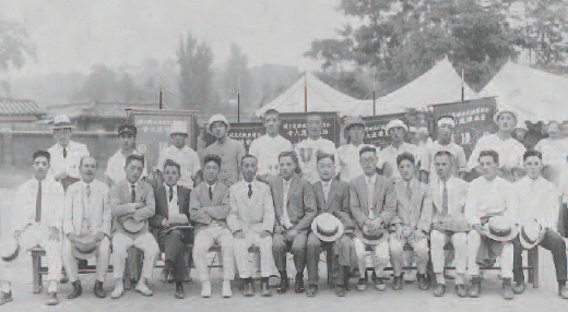 Soft tennis at the 1920 Korean National Sports Festival